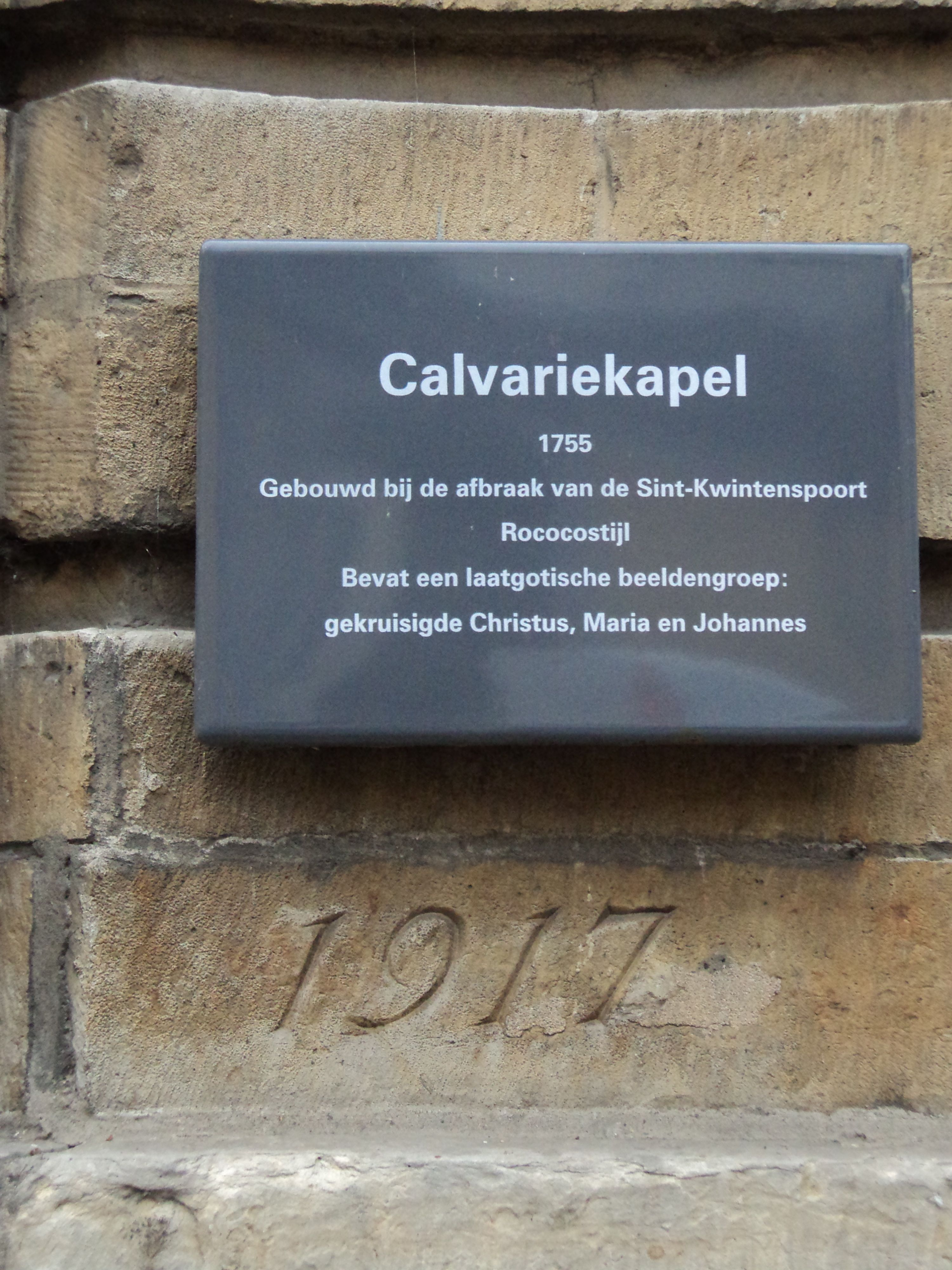 Calvary Chapel Leuven, Belgium